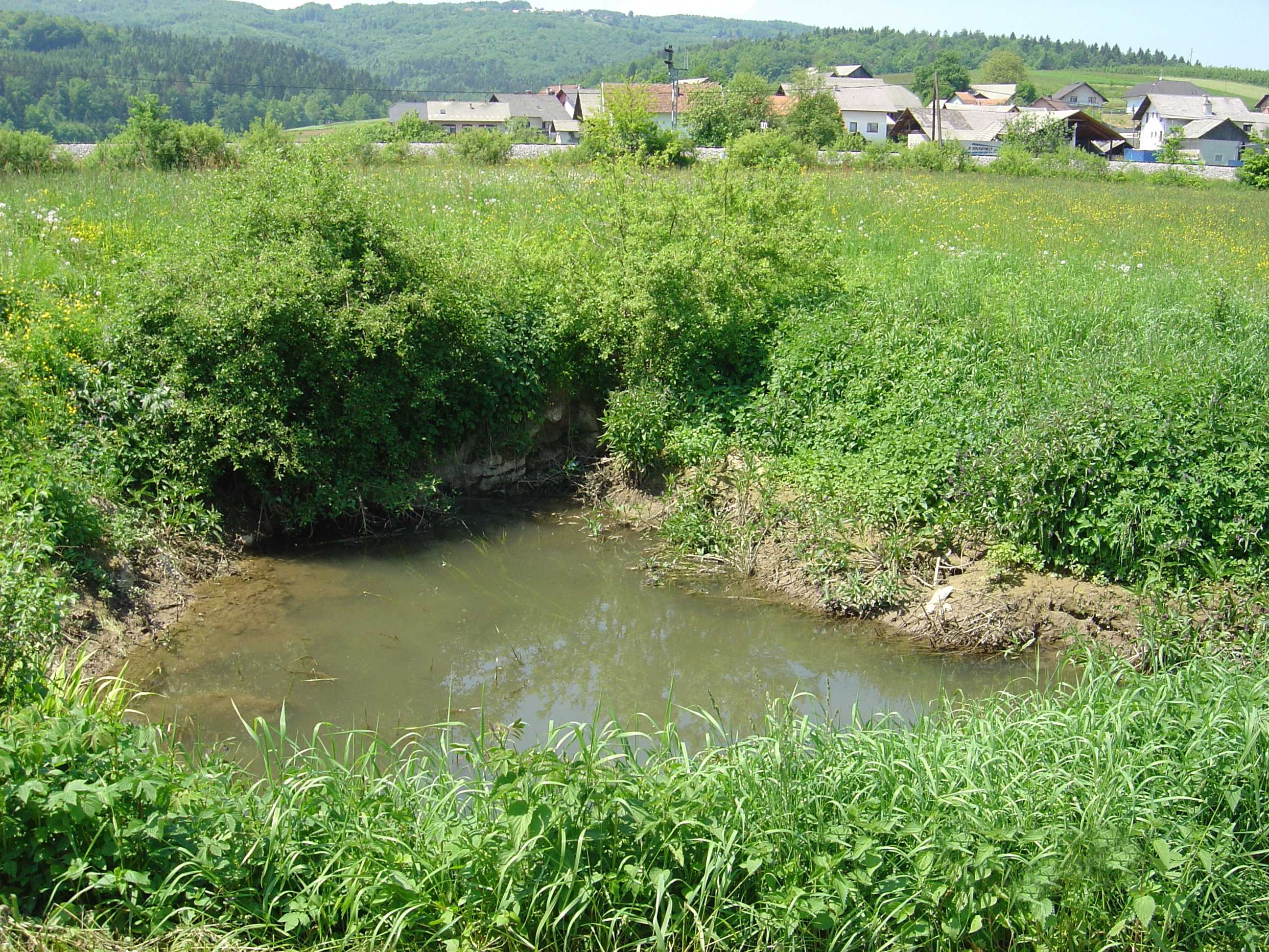 A ponor of karst river Temenica in Dolenje Ponikve, Slovenia, 2004